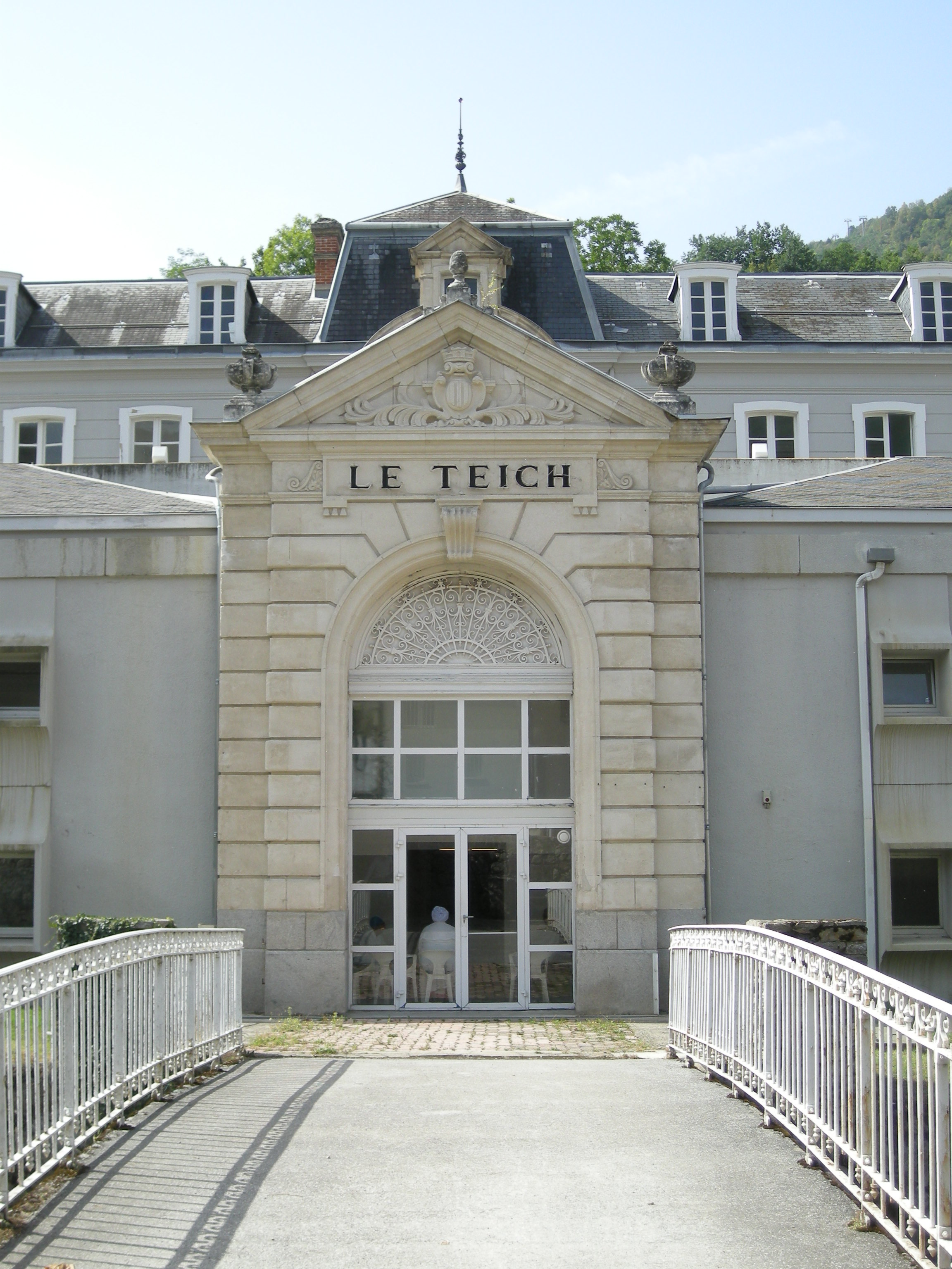 Spa in Ax-les-Thermes (Ariège)